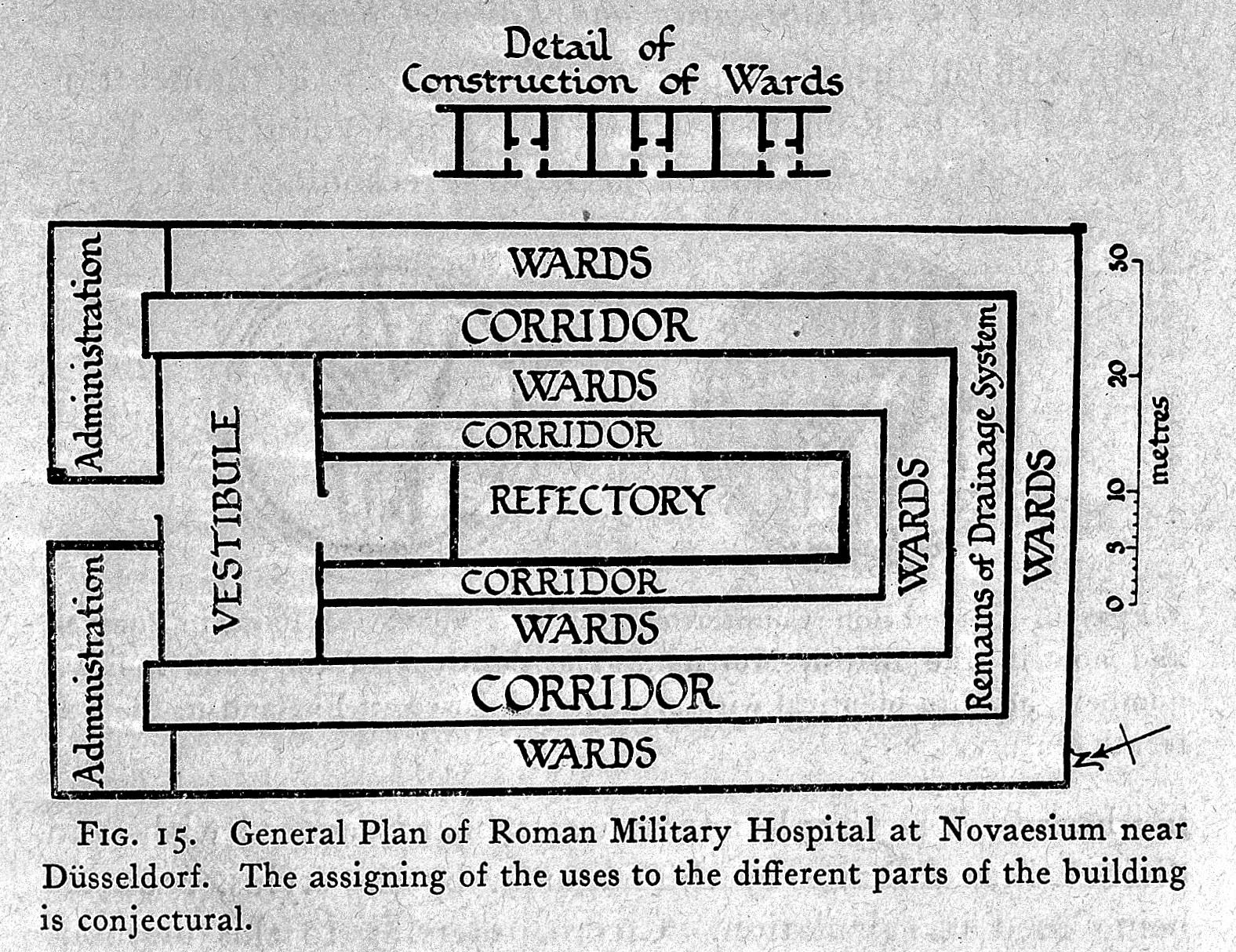 Hospital at Novaesium near Dusseldorft. The assigning of the uses to the different parts of the building is conjectural. General Collections Keywords: Hospital; Military; Roman; Hospitals; Military Personnel